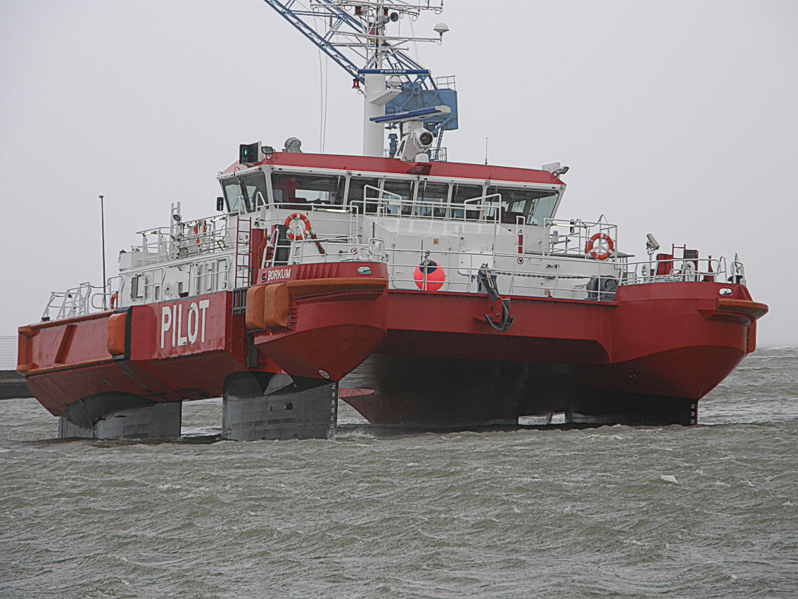 The pilot boat Borkum (home port Emden), during a storm in the North Sea in the harbour of Cuxhaven